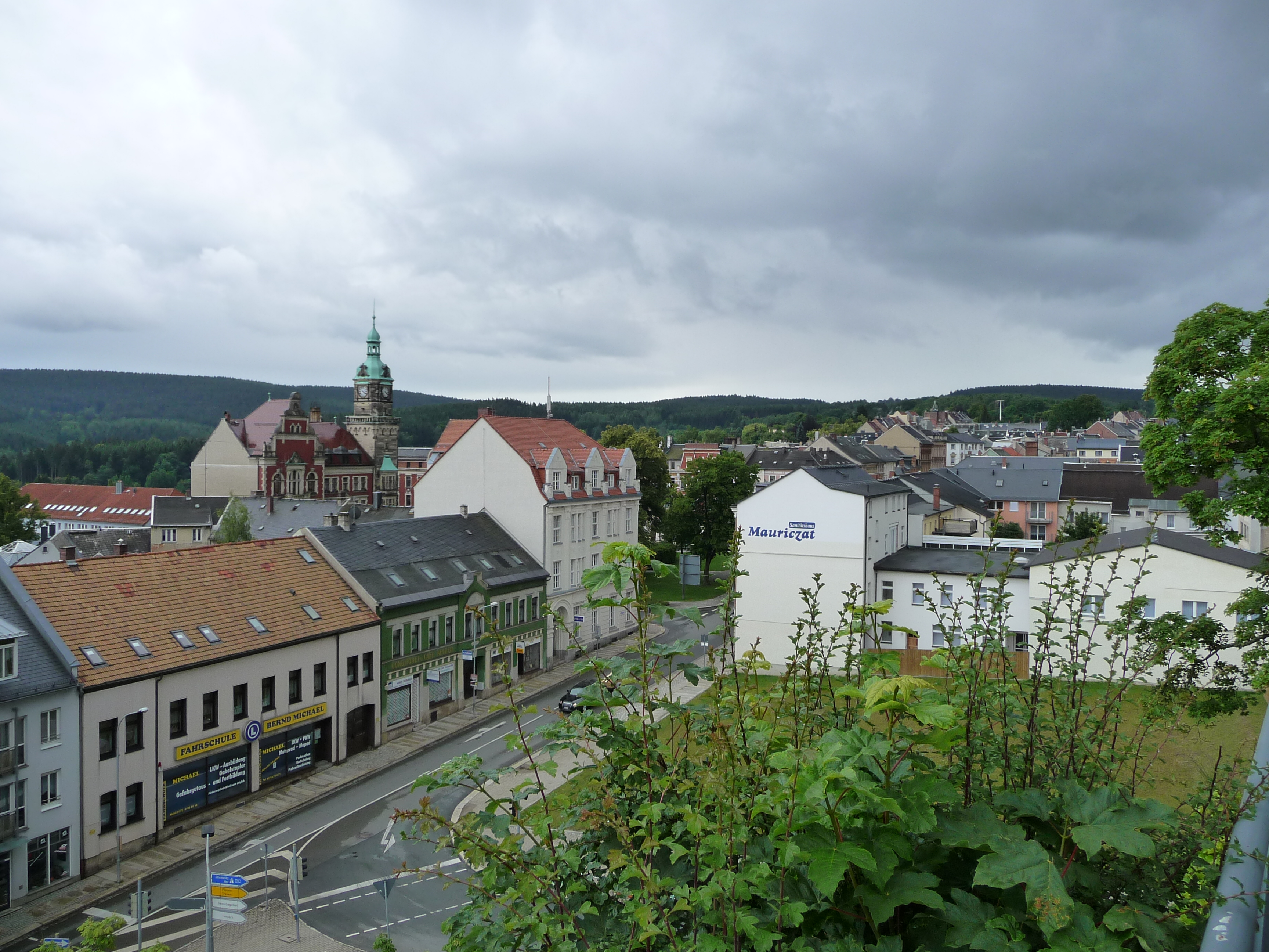 View of the town of Falkenstein, Vogtlandkreis district in Saxony, Germany.